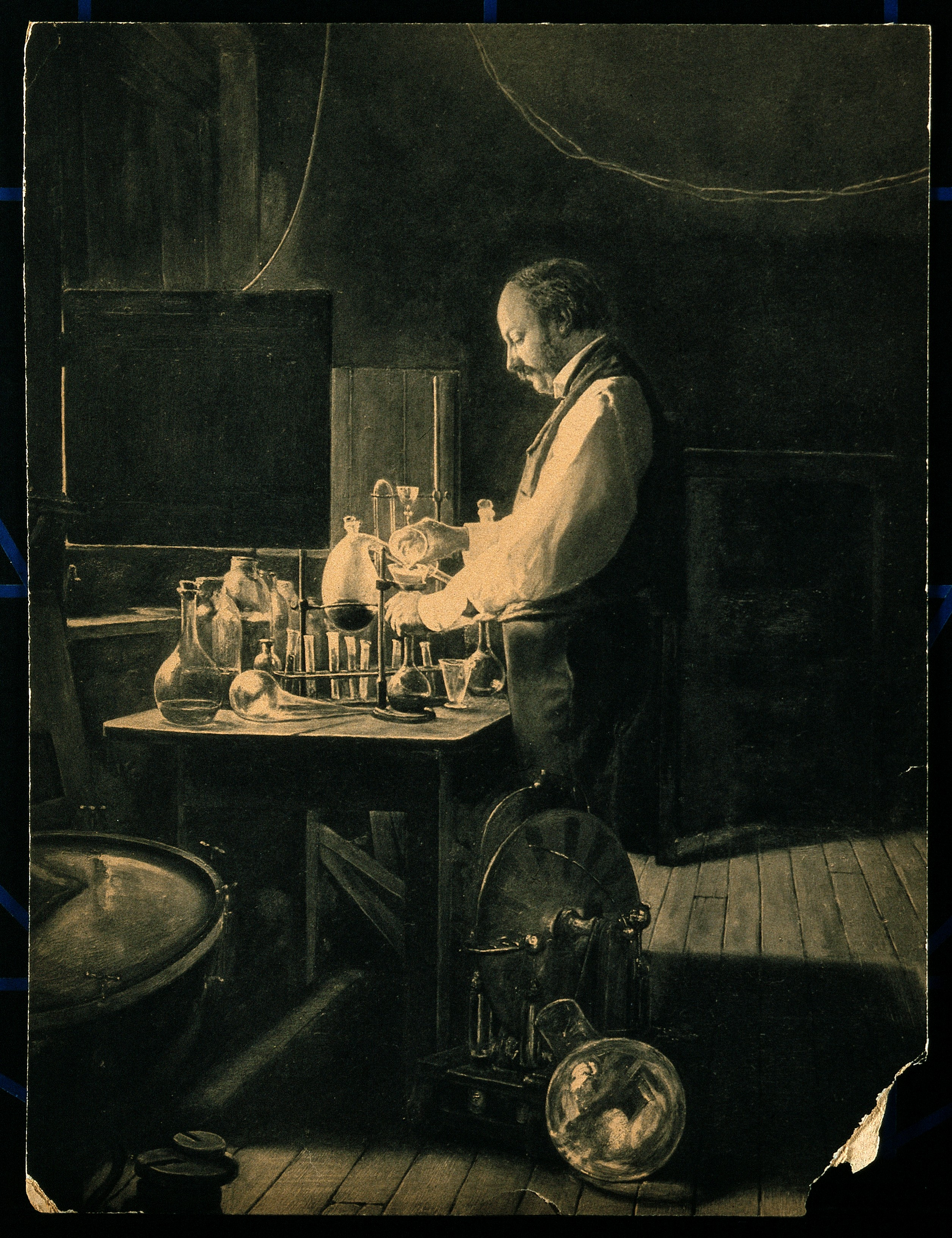 John William Strutt, 3rd Baron Rayleigh. Photogravure after Sir P. Burne-Jones. Iconographic Collections Keywords: portrait prints; John William Strutt Rayleigh; photogravures